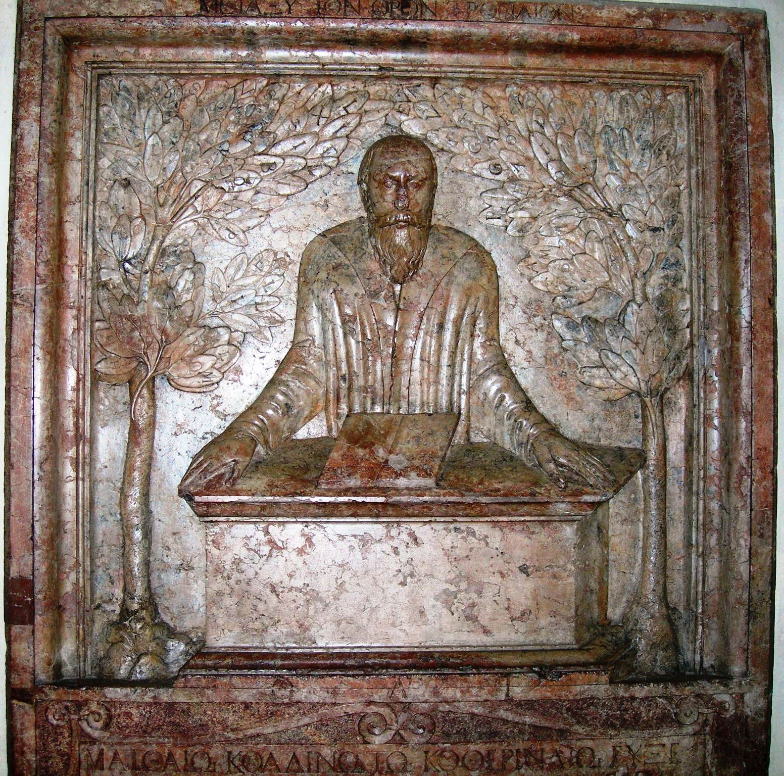 Prague, Karolinum, kenotaph of M. Collinus (1566)